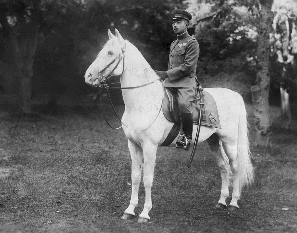 Original caption: Emperor Hirohito on his favorite white horse Shirayuki.